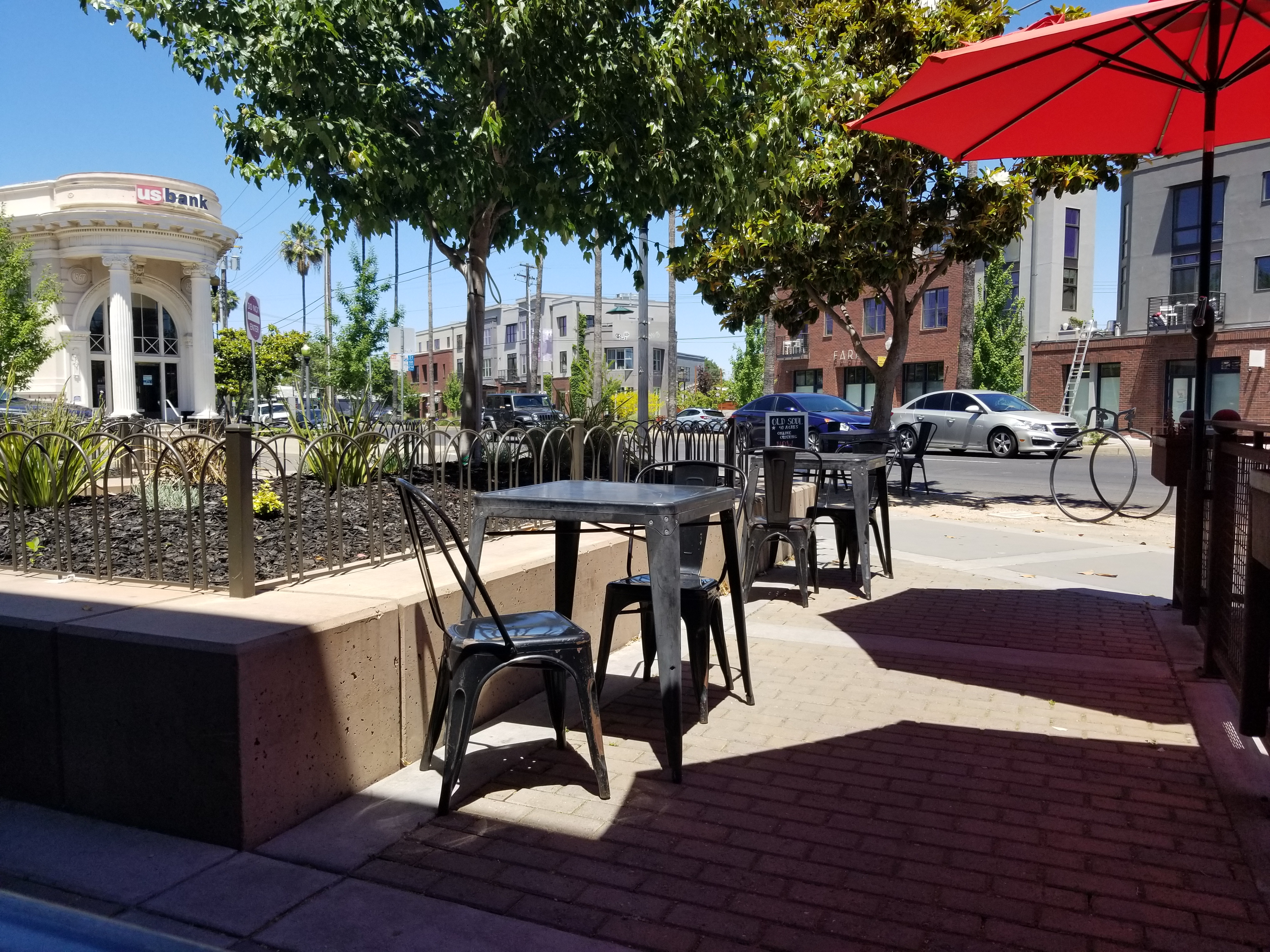 A snapshot of the Triangle District in Oak Park, a neighborhood in sacramento, California